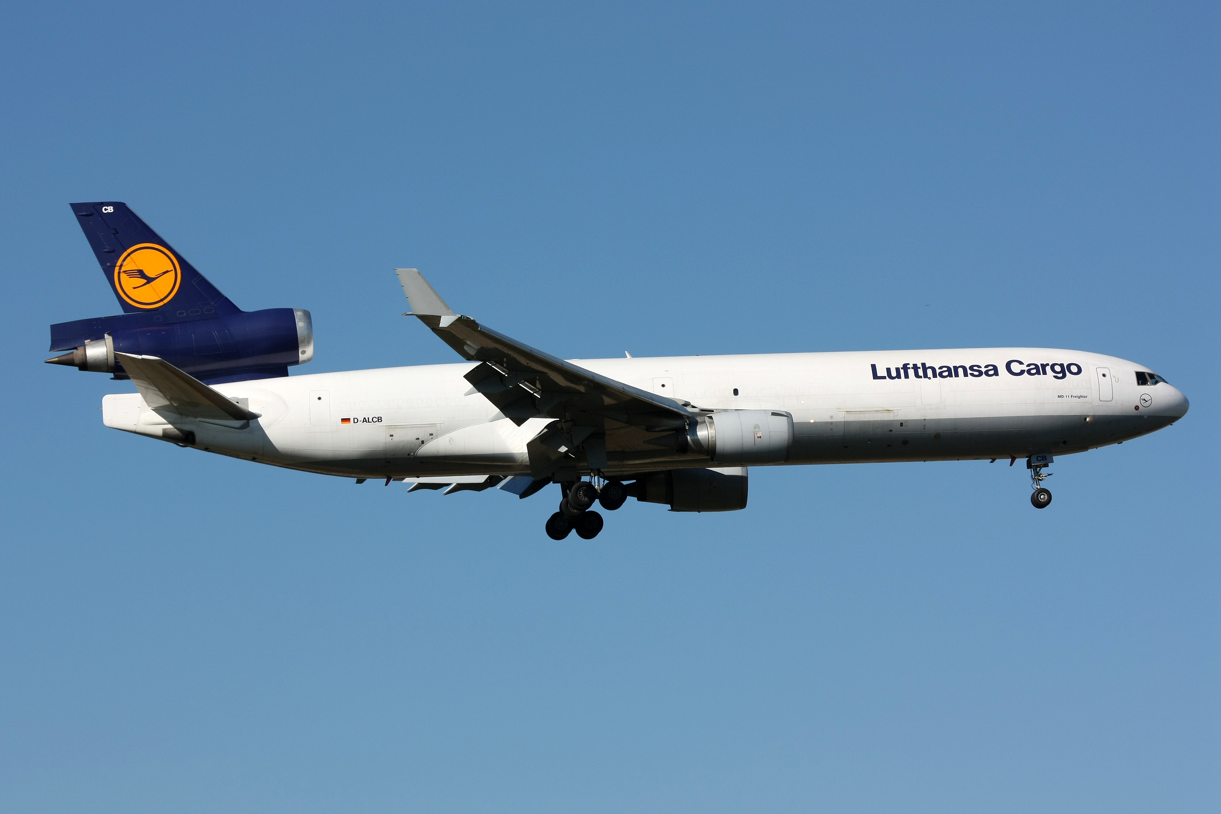 A Lufthansa Cargo McDonnell Douglas MD-11F lands at Frankfurt Airport